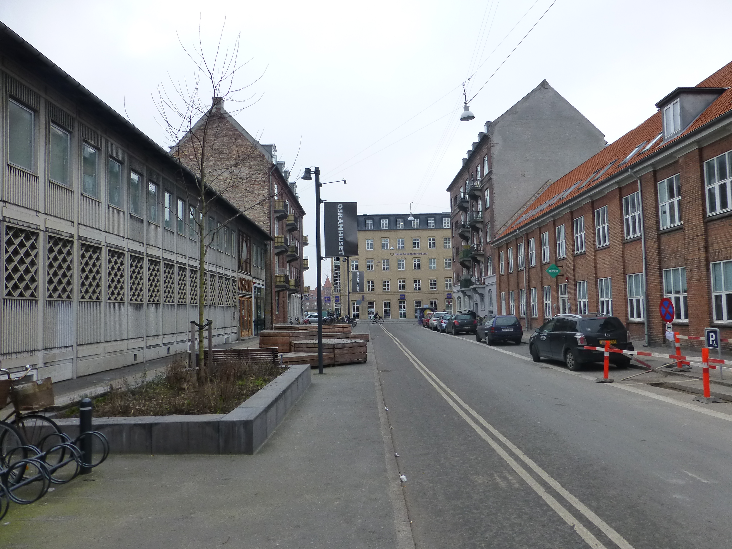 Valhalsgade is a street in Nørrebro in Copenhagen.